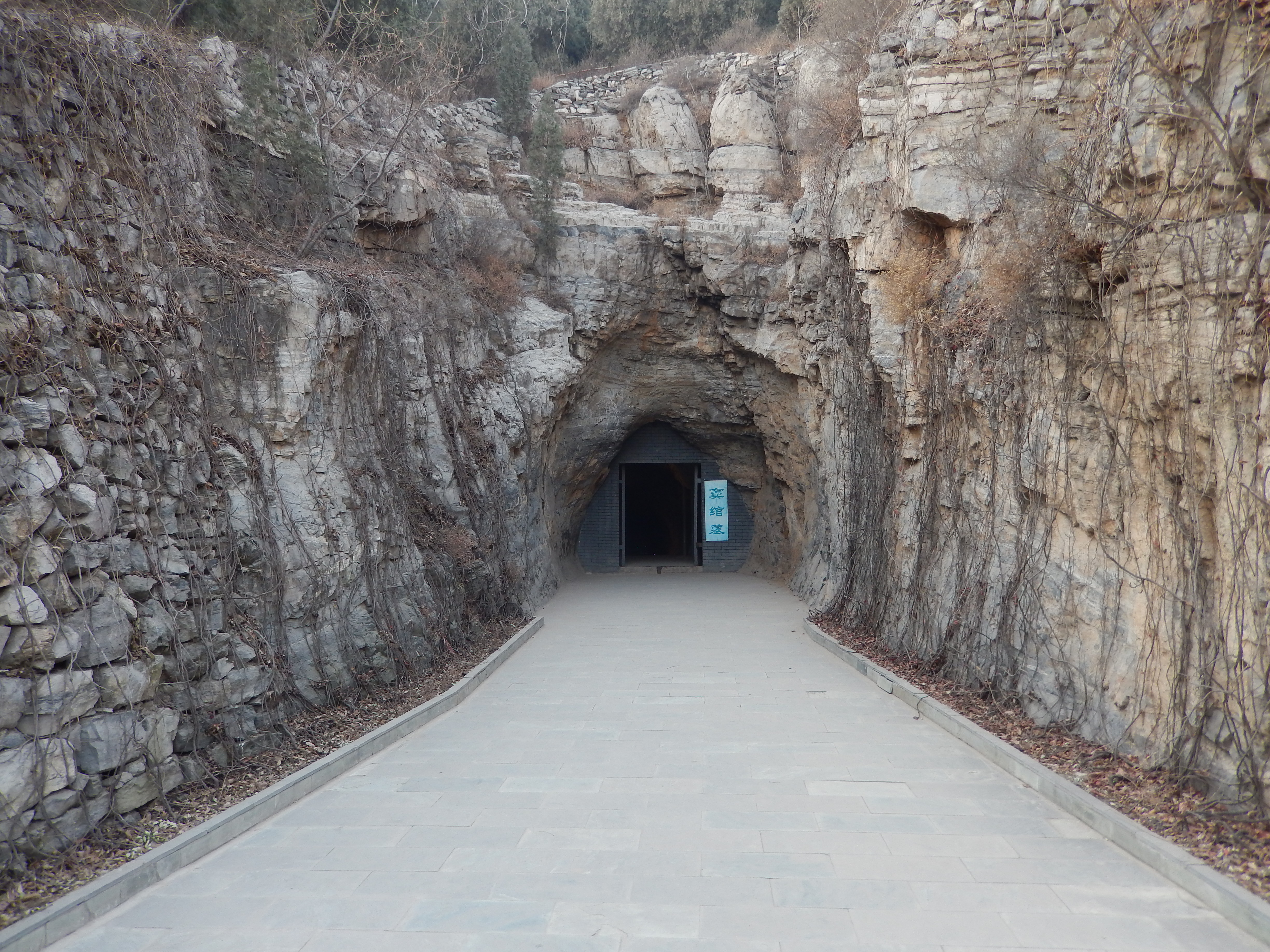 Entrance to the tomb of Dou Wan at Mancheng, Hebei. Western Han.